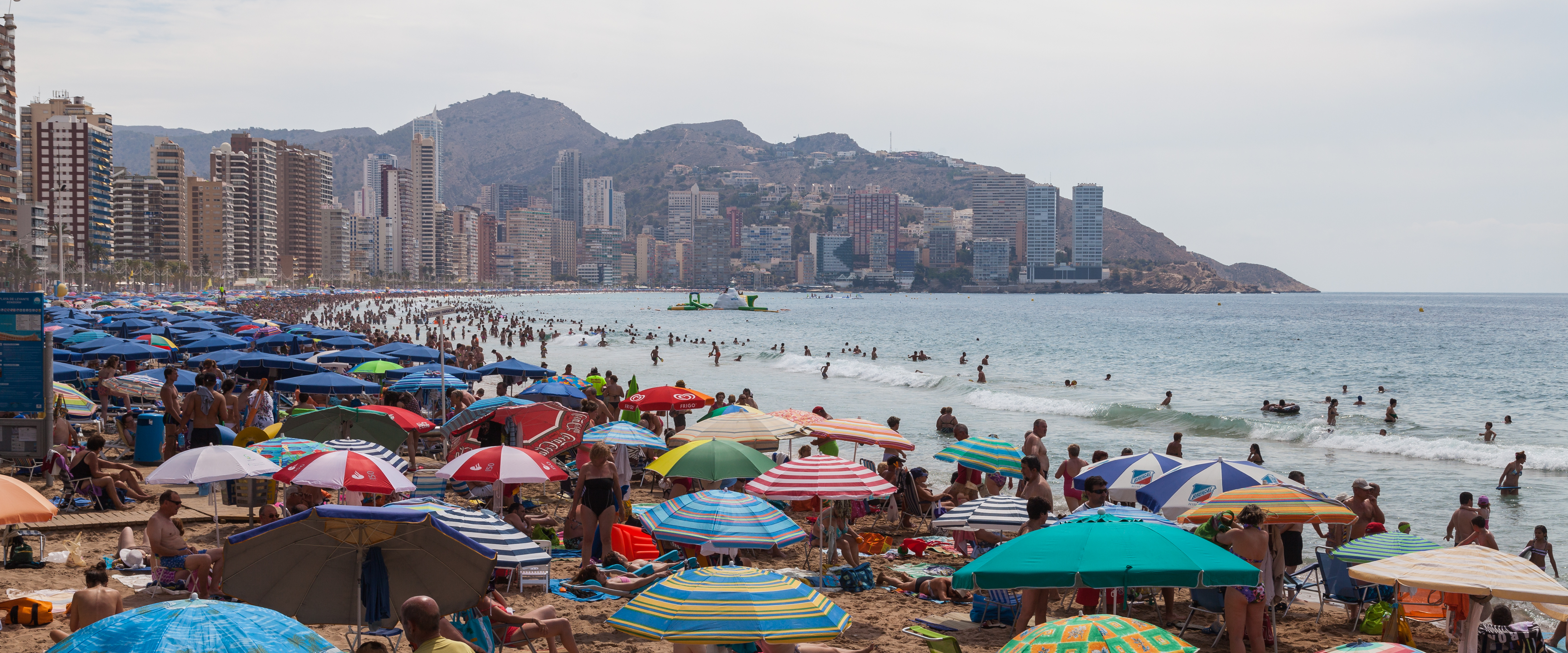 Levante beach, Benidorm, Spain